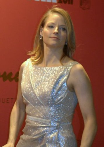 Jodie Foster in Paris at the César awards ceremony